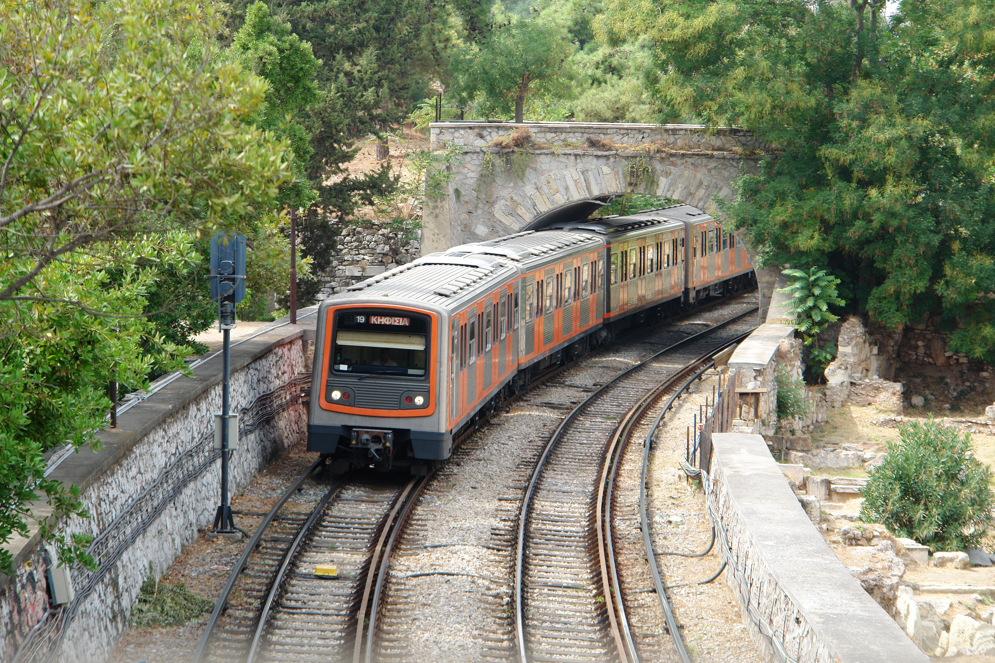 A train of Athens-Piraeus Electric Railways passing the ancient Agora.